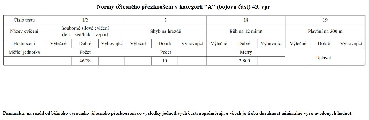 Selection 43rd Airborne Battalion, PT test, Group A